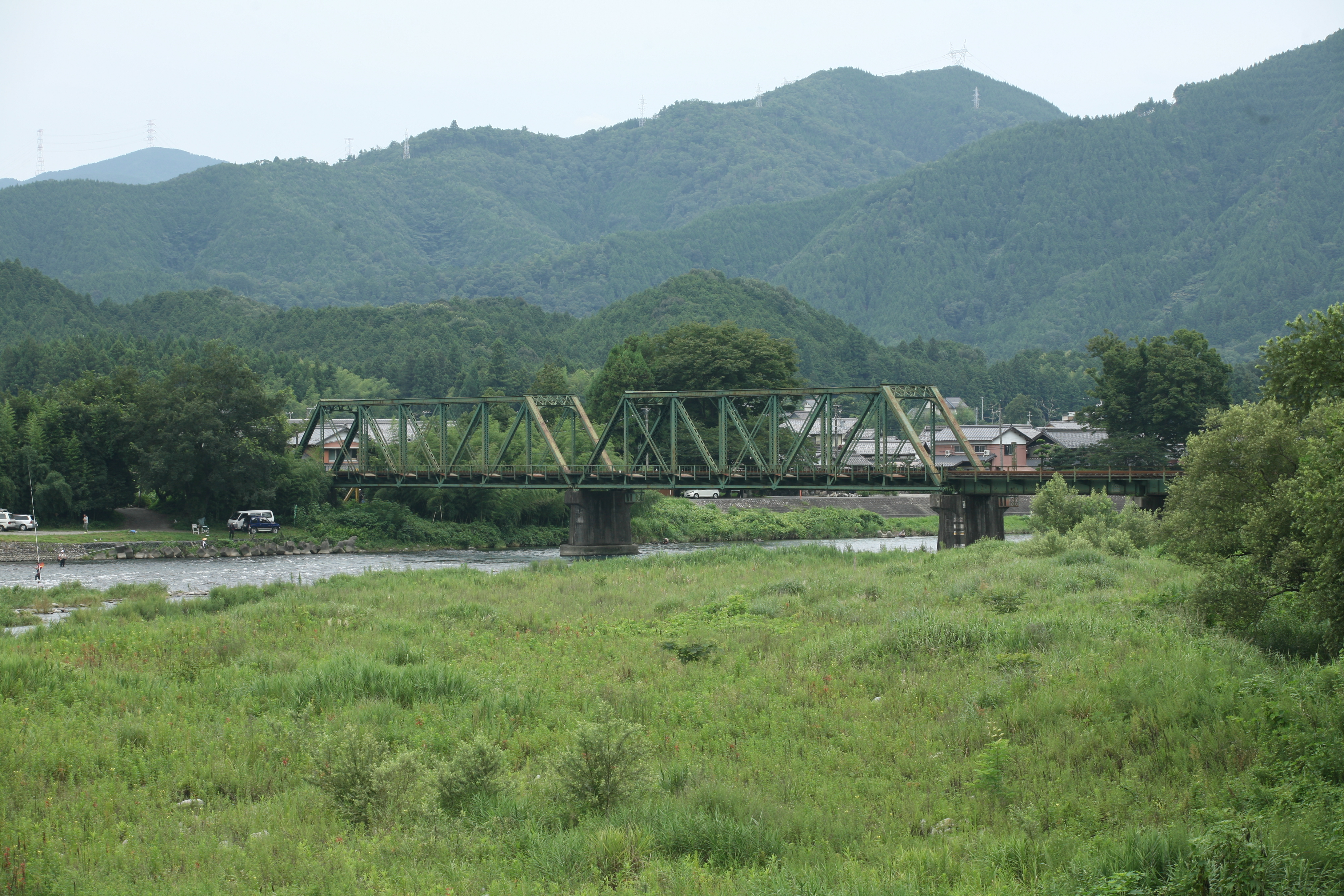 The 1st Neogawa river bridge,Tarumi Ry.,manufactured by American Bridge,1910.